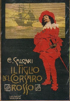 Son of the Red Corsair by Emilio Salgari